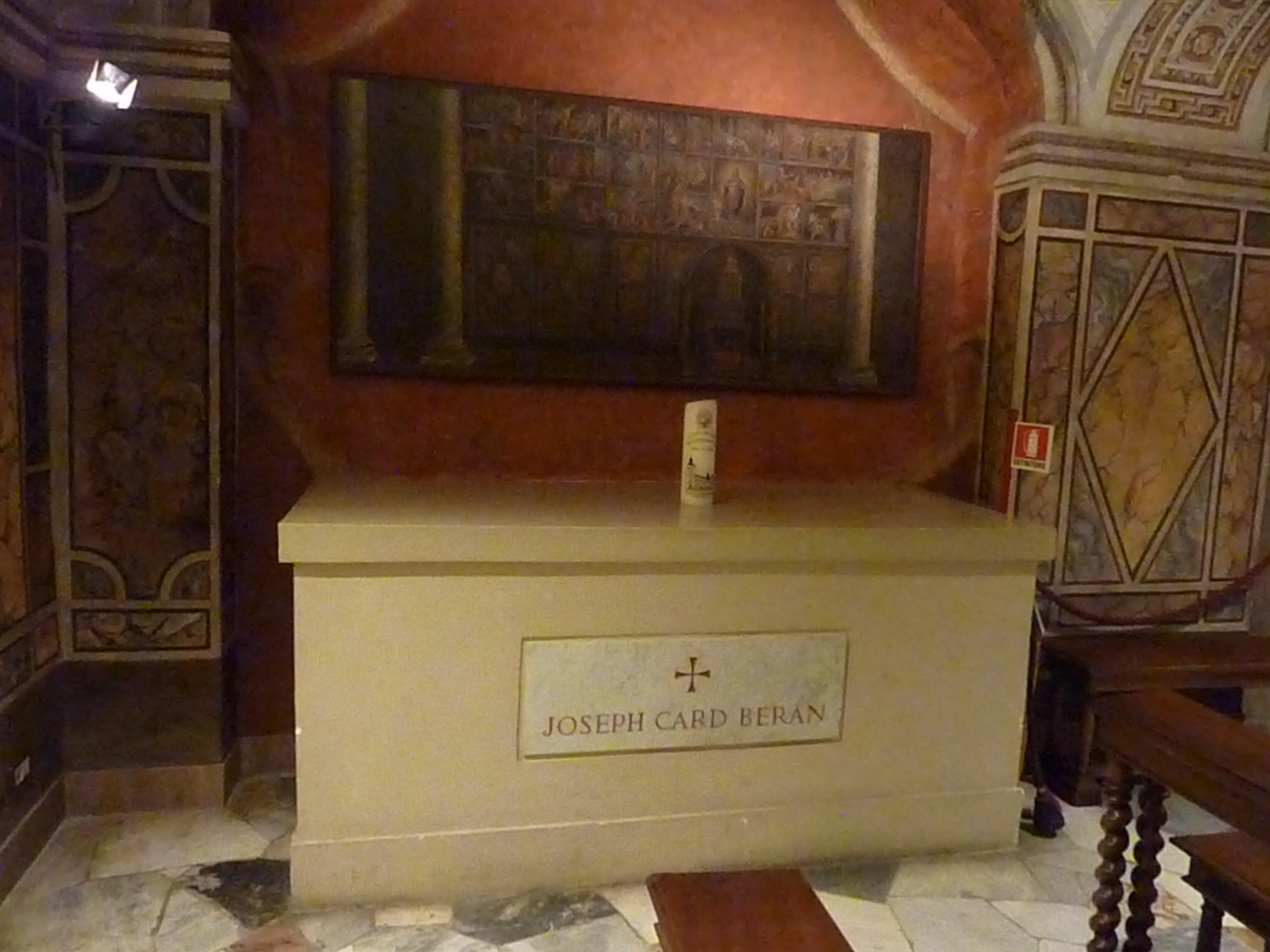 Original tomb of Czech cardinal Josef Beran in the crypt of St. Peter's Basilica in Rome before it was moved to Prague